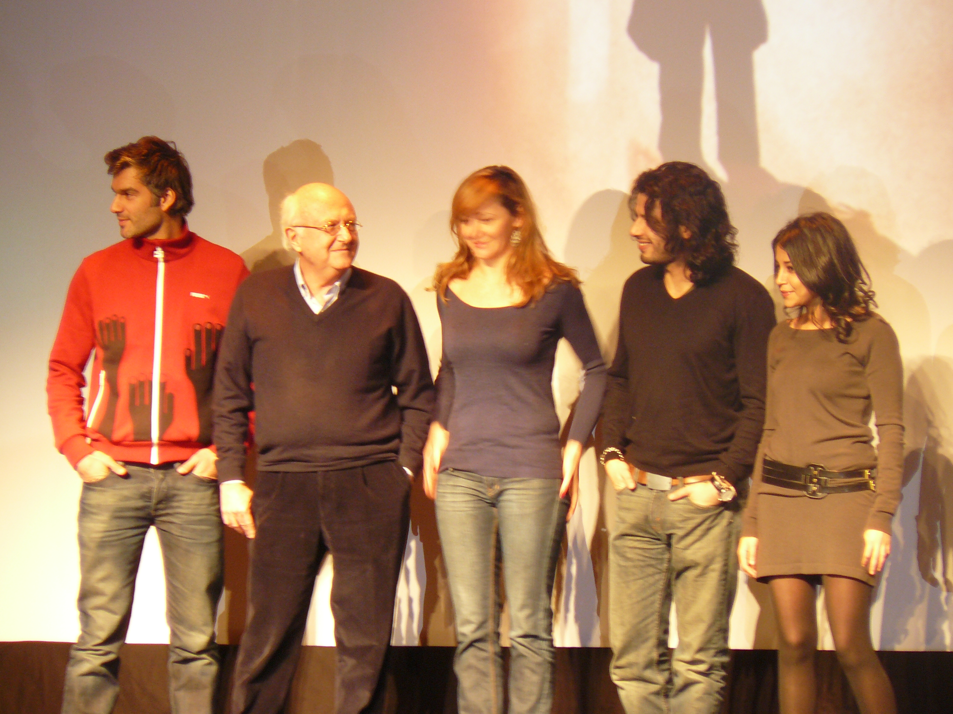 short film jury at Fantastic'Arts 2009. François Vincentelli, Vladimir Cosma, Julie Ferrier, Mabrouk El Mechri, Leila Bekhti